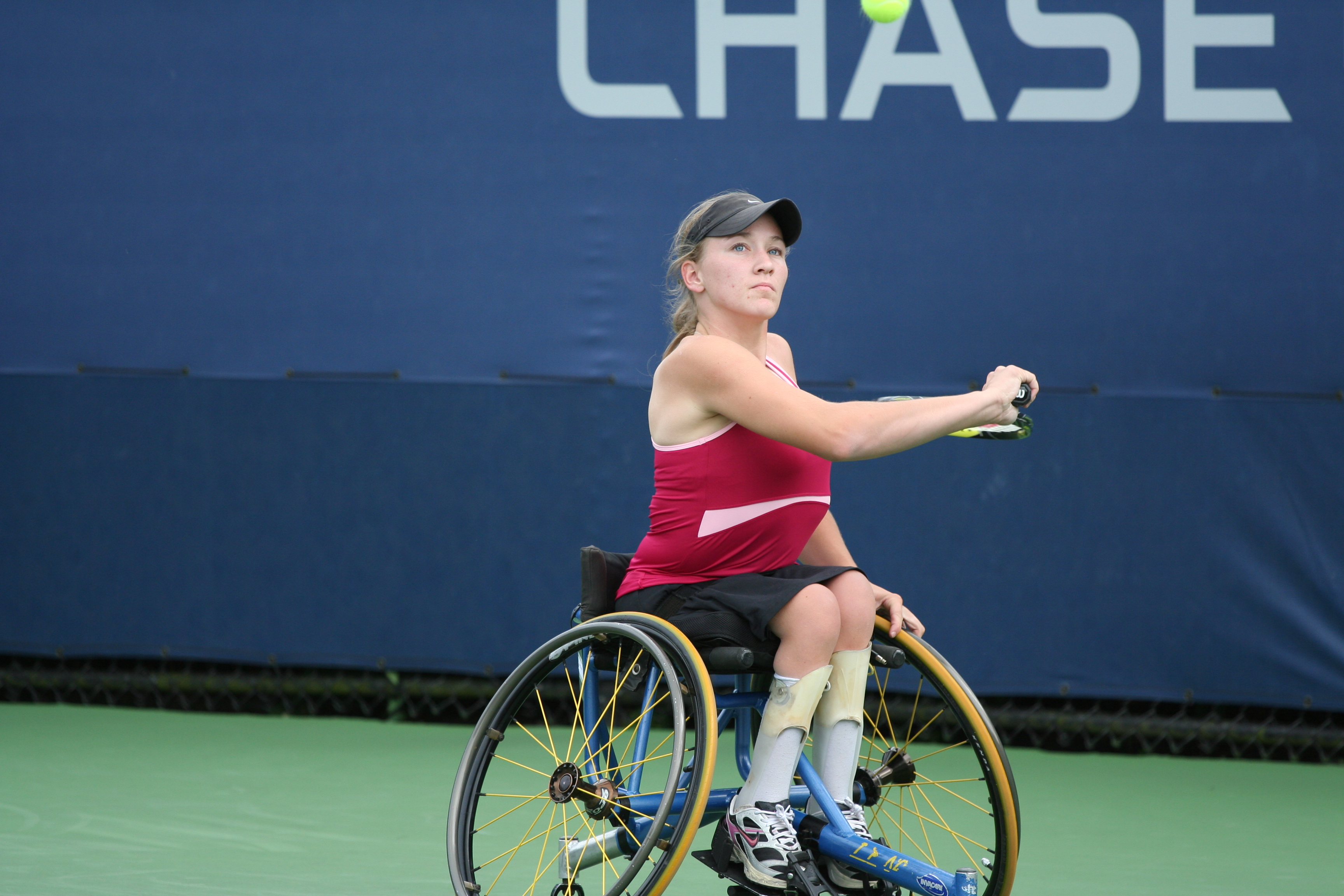 U.S. Open Wheelchair Thursday, Sept. 10, 2009